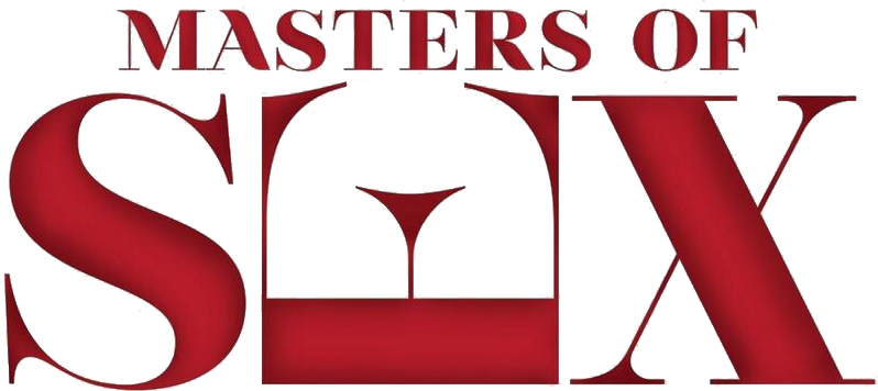 Masters of Sex series logo.